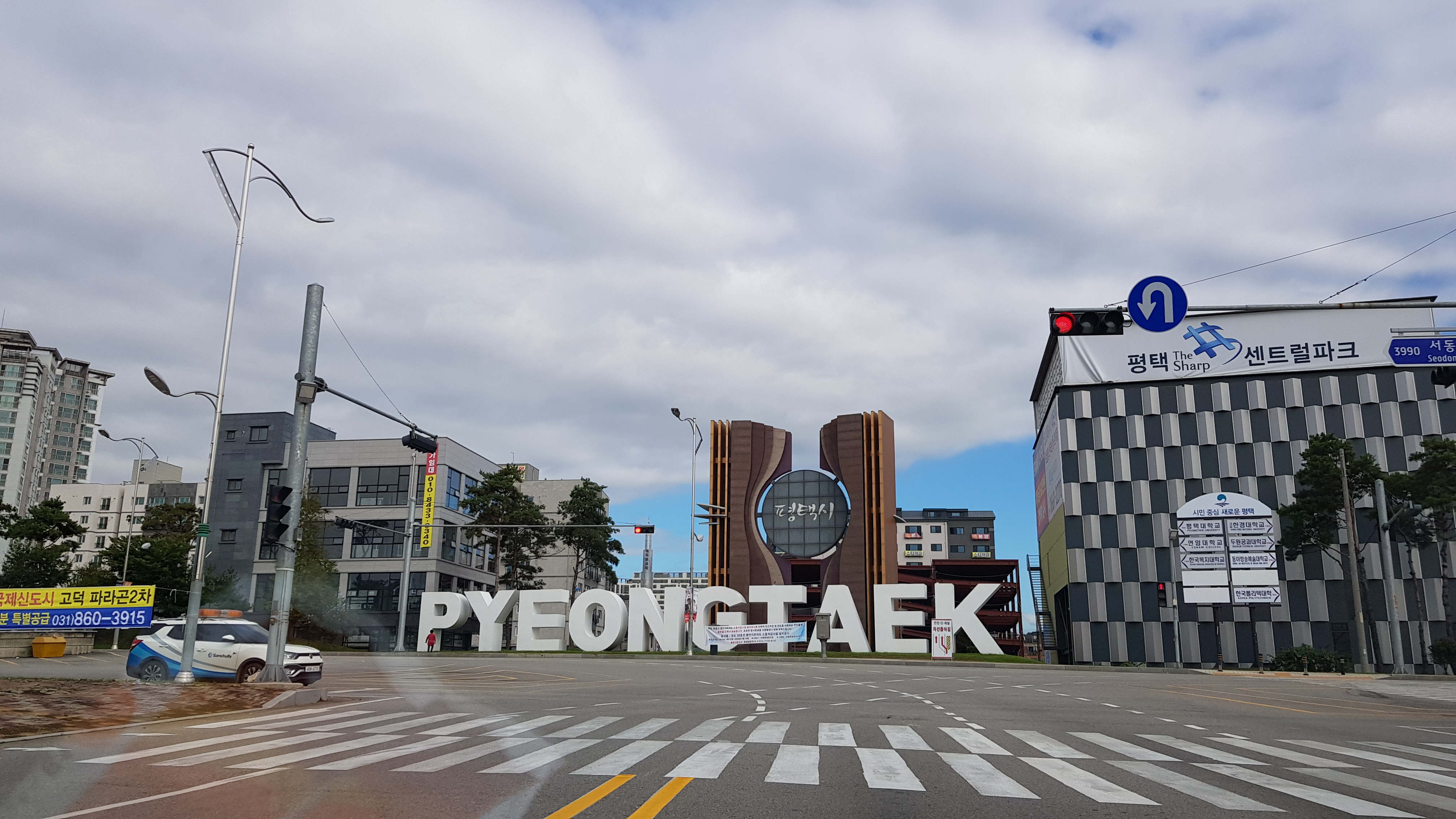 Pyeongtaek Sign at the road front the exit of Anseong IC